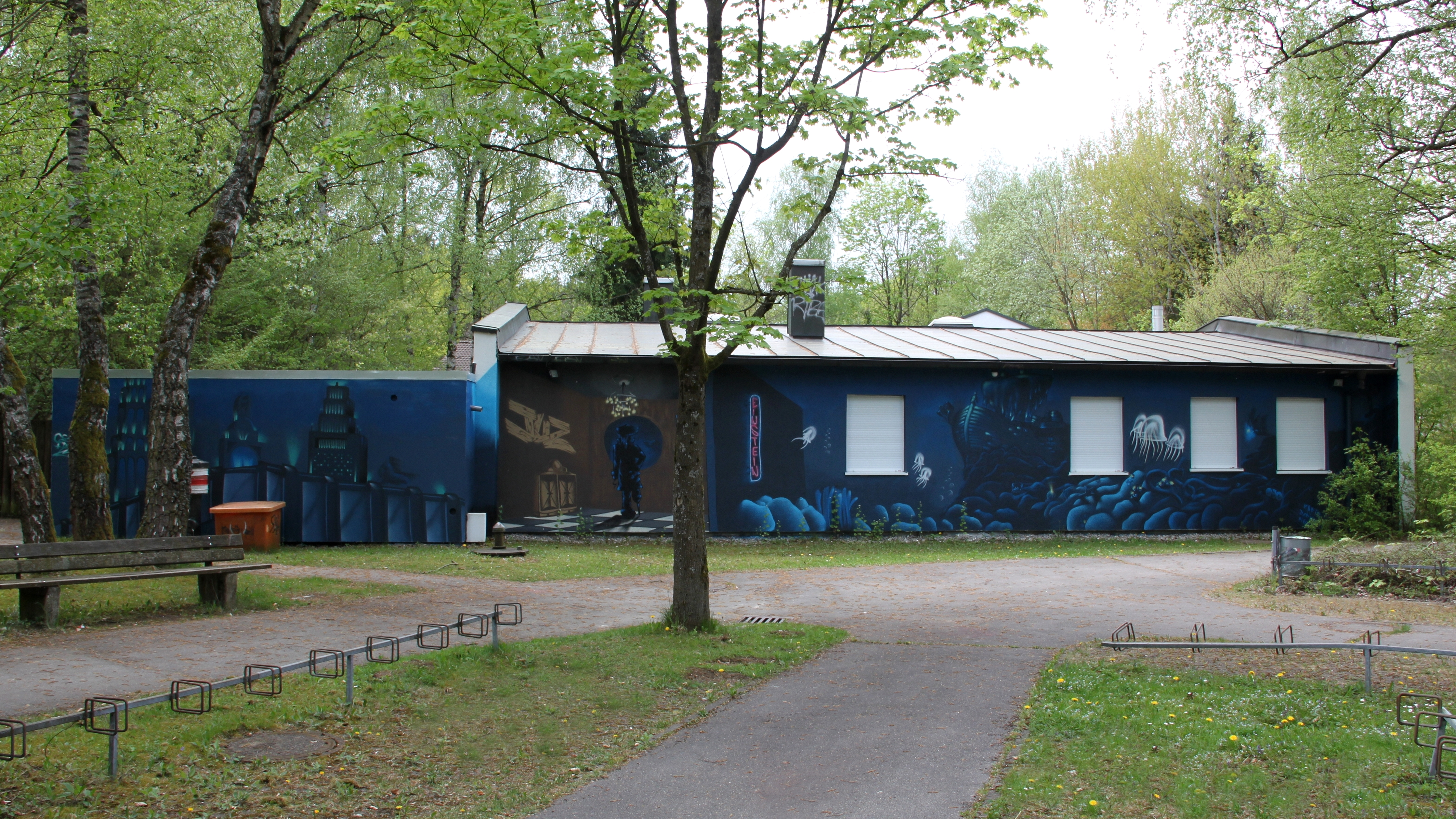 Ottobrunn: "Einstein" youth center (16 Einsteinstraße).